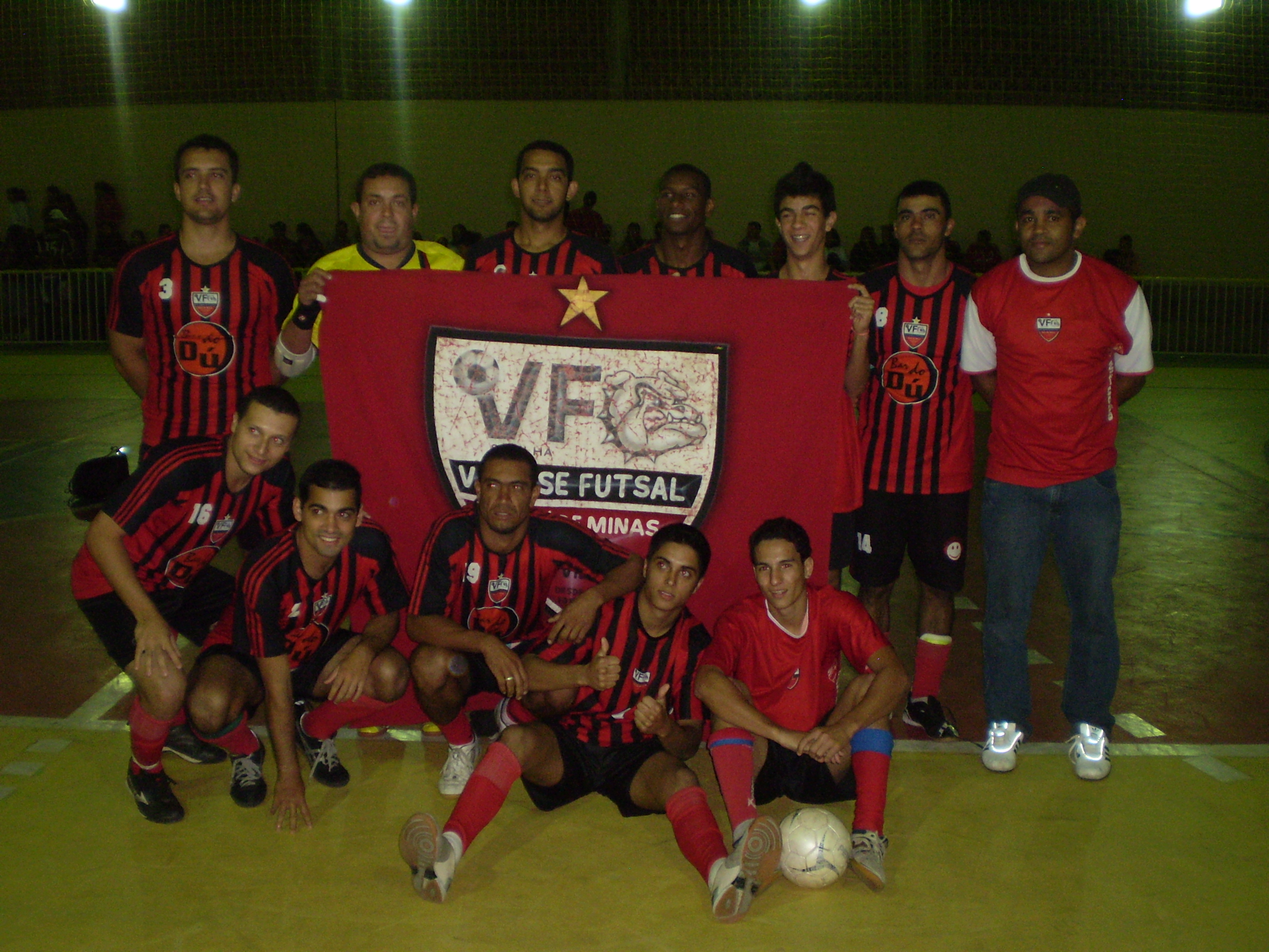 Vilense, Regional Champion in the city of Serra da Saudade 2010